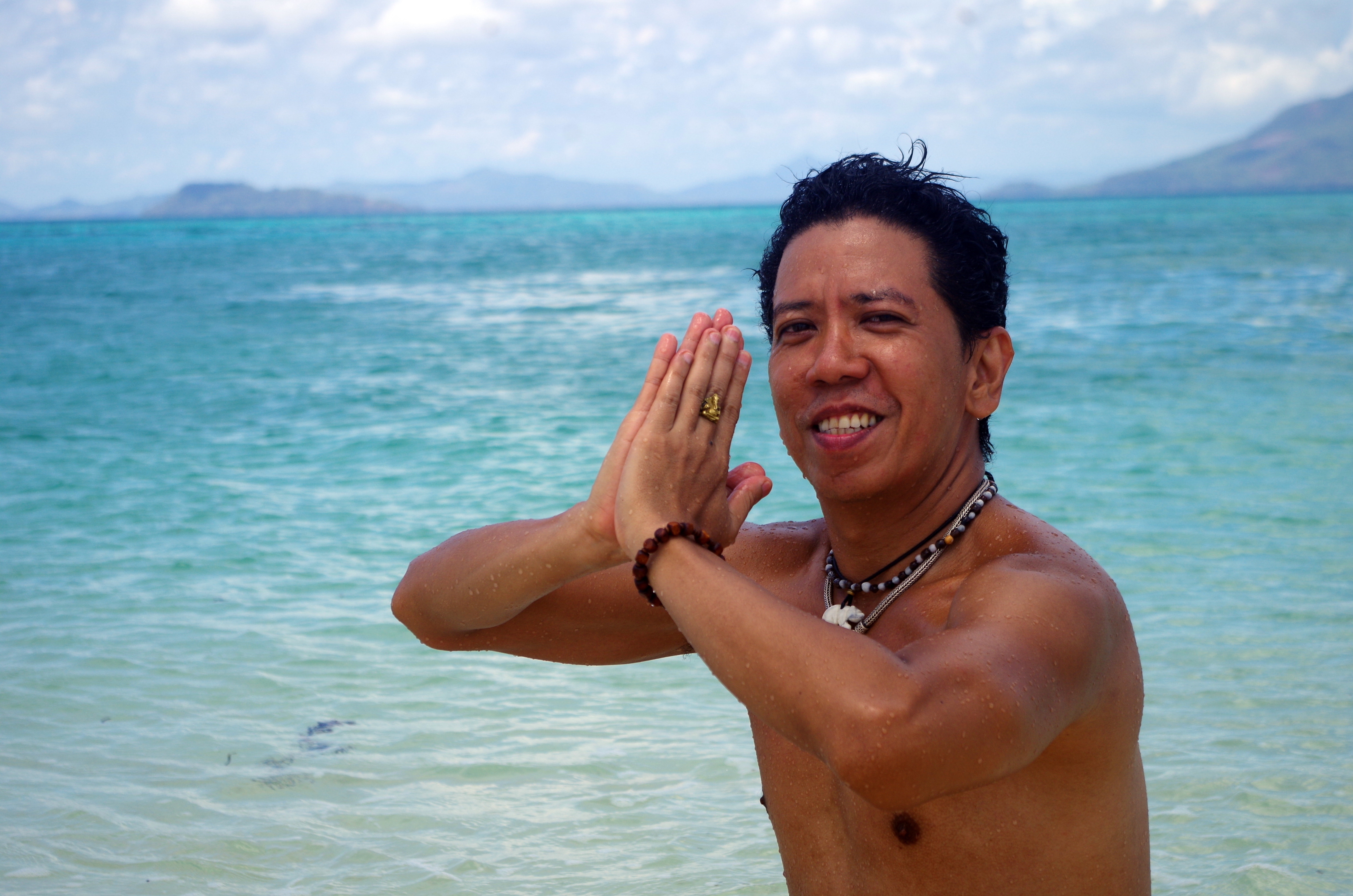 Kanakan-Balintagos, the filmmaker formerly known as Auraeus Solito